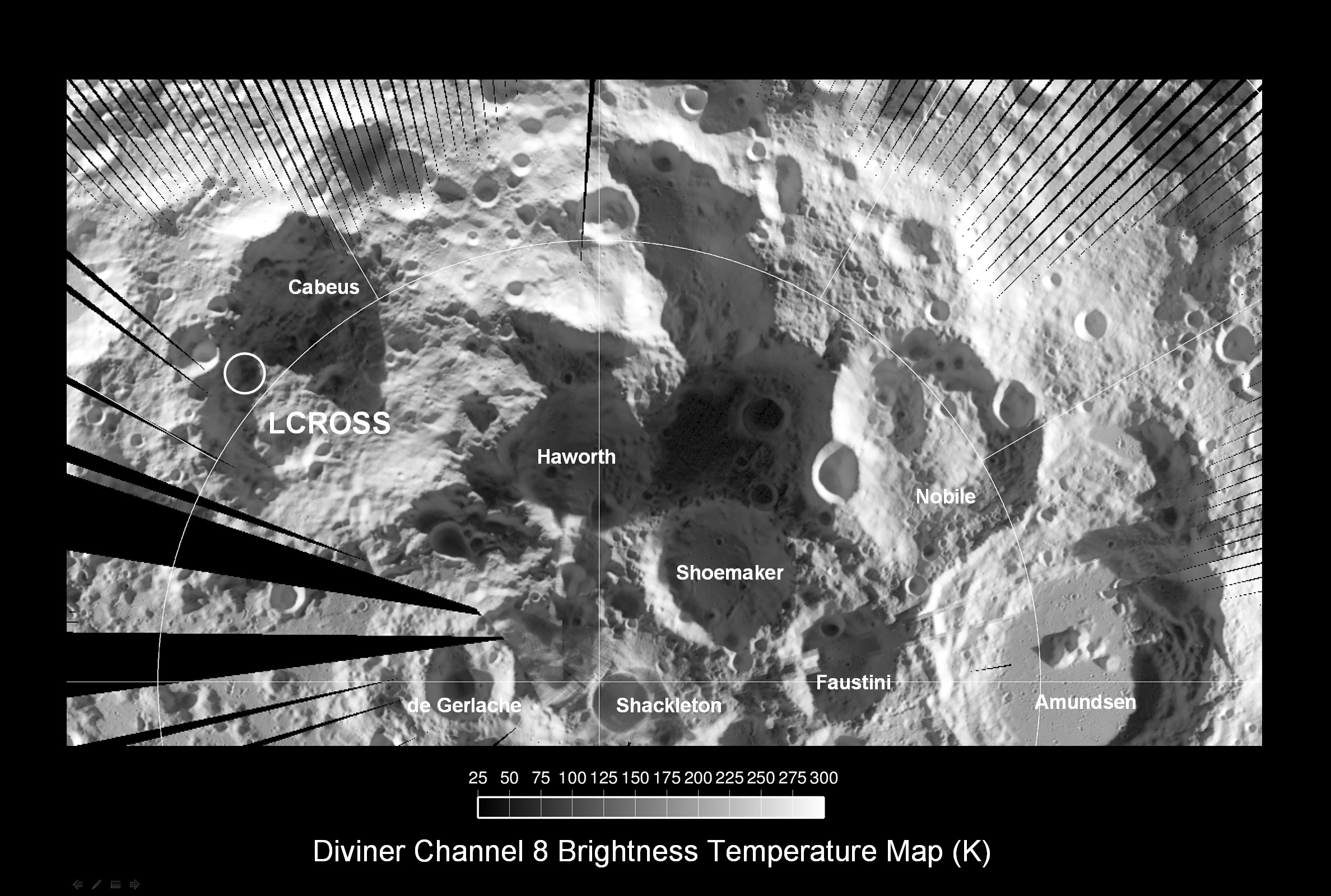 Lunar south pole temperature as imaged by Diviner. Annotated. Cabeus Crater, de Gerlache Crater, Haworth Crater, Shackleton Crater, Shoemaker Crater, Faustini Crater, Nobile Crater, Amundsen Crater.